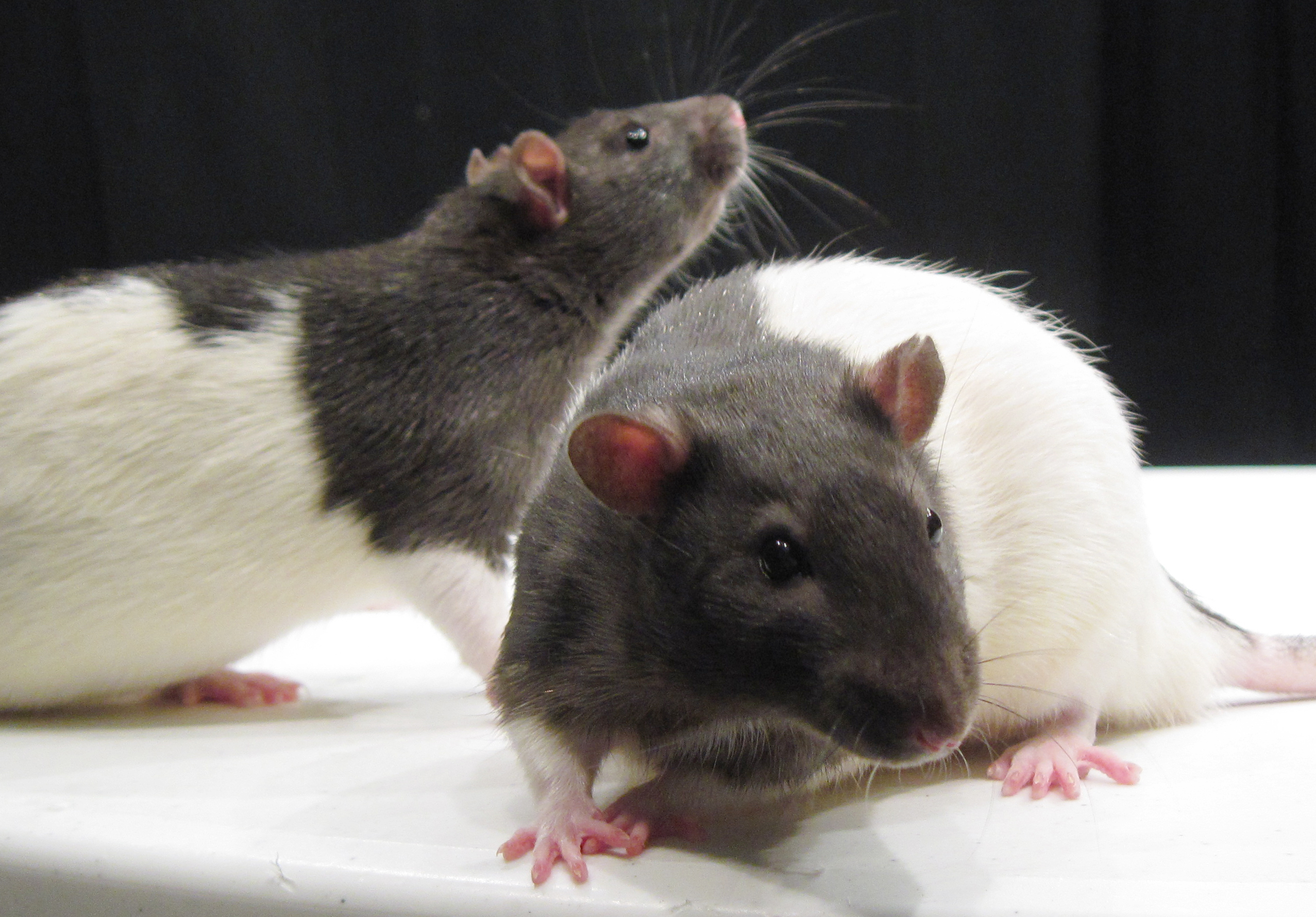 WT and TK rat photo